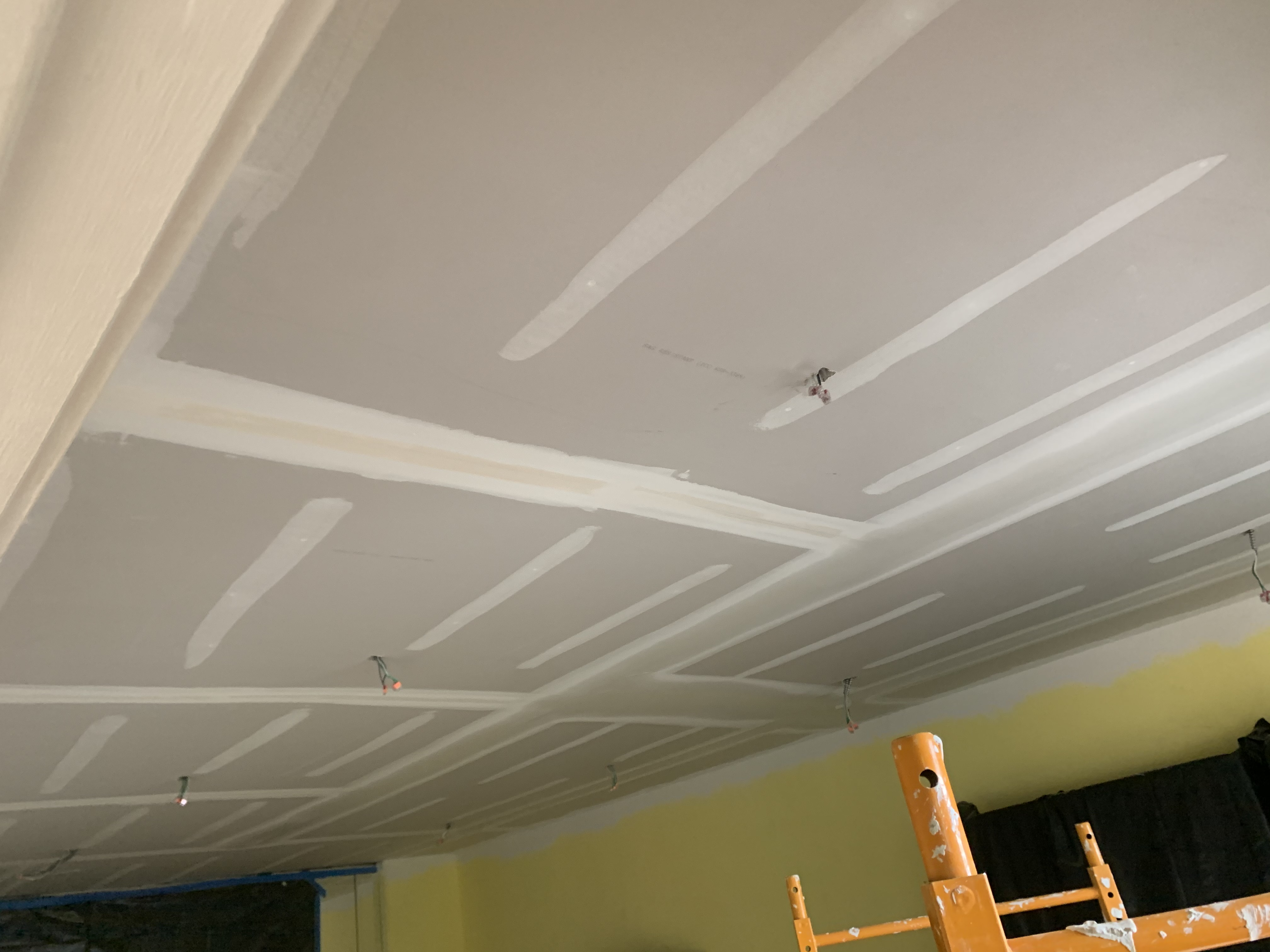 Soundproof Sheetrock Installation, Viscoelastic Compound, Resilient Isolation Channel